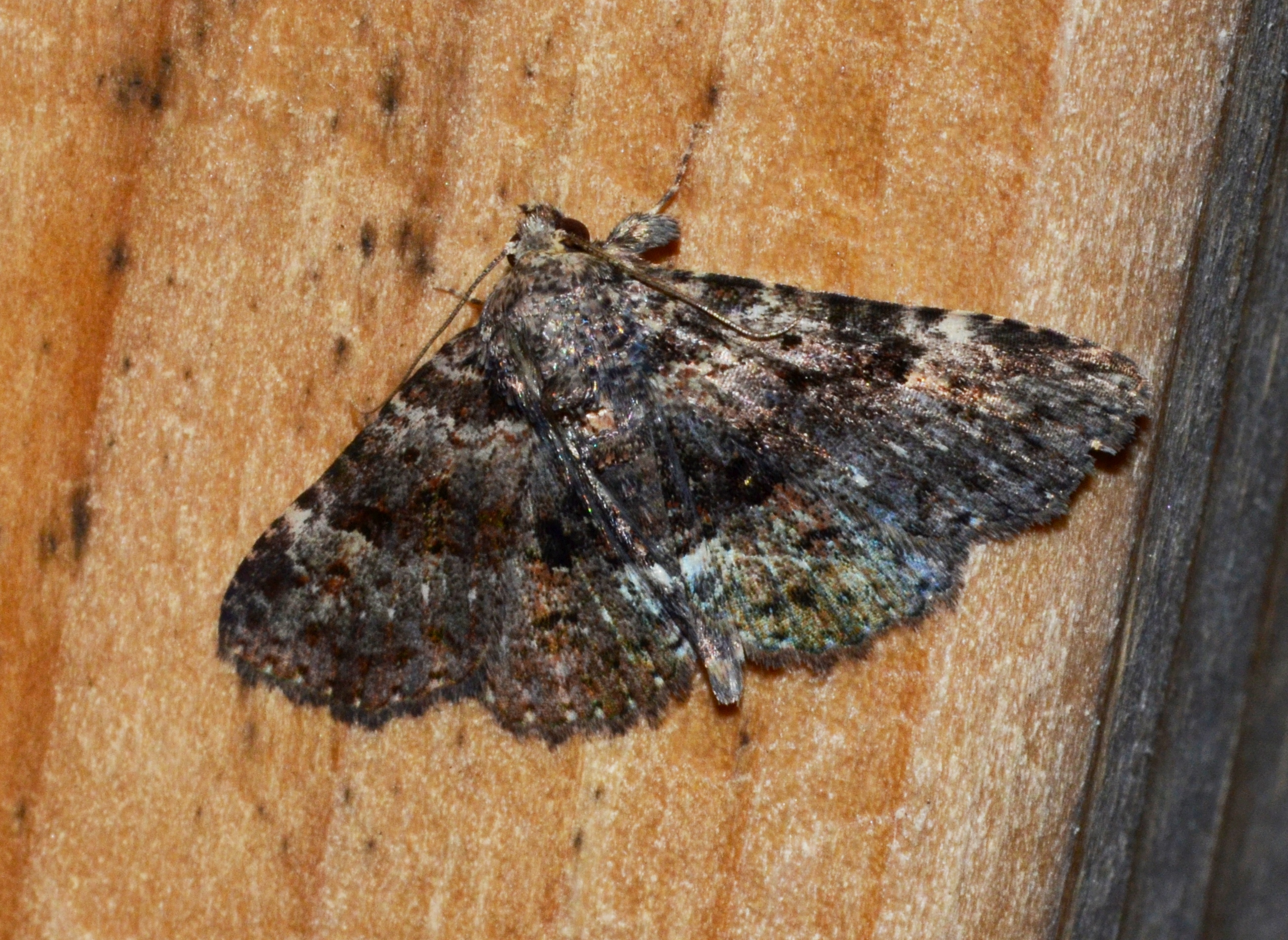 Mothing Night 5/29-30/14